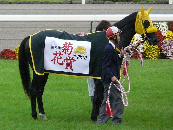 Big-Week20101024